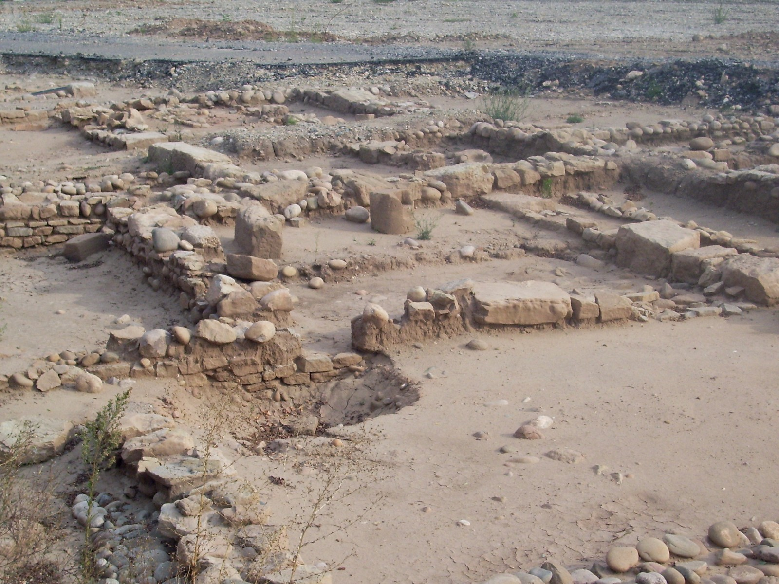 General view of Roman ruins in Varea, near Logroño (Spain). This old village was known as "Vareia".